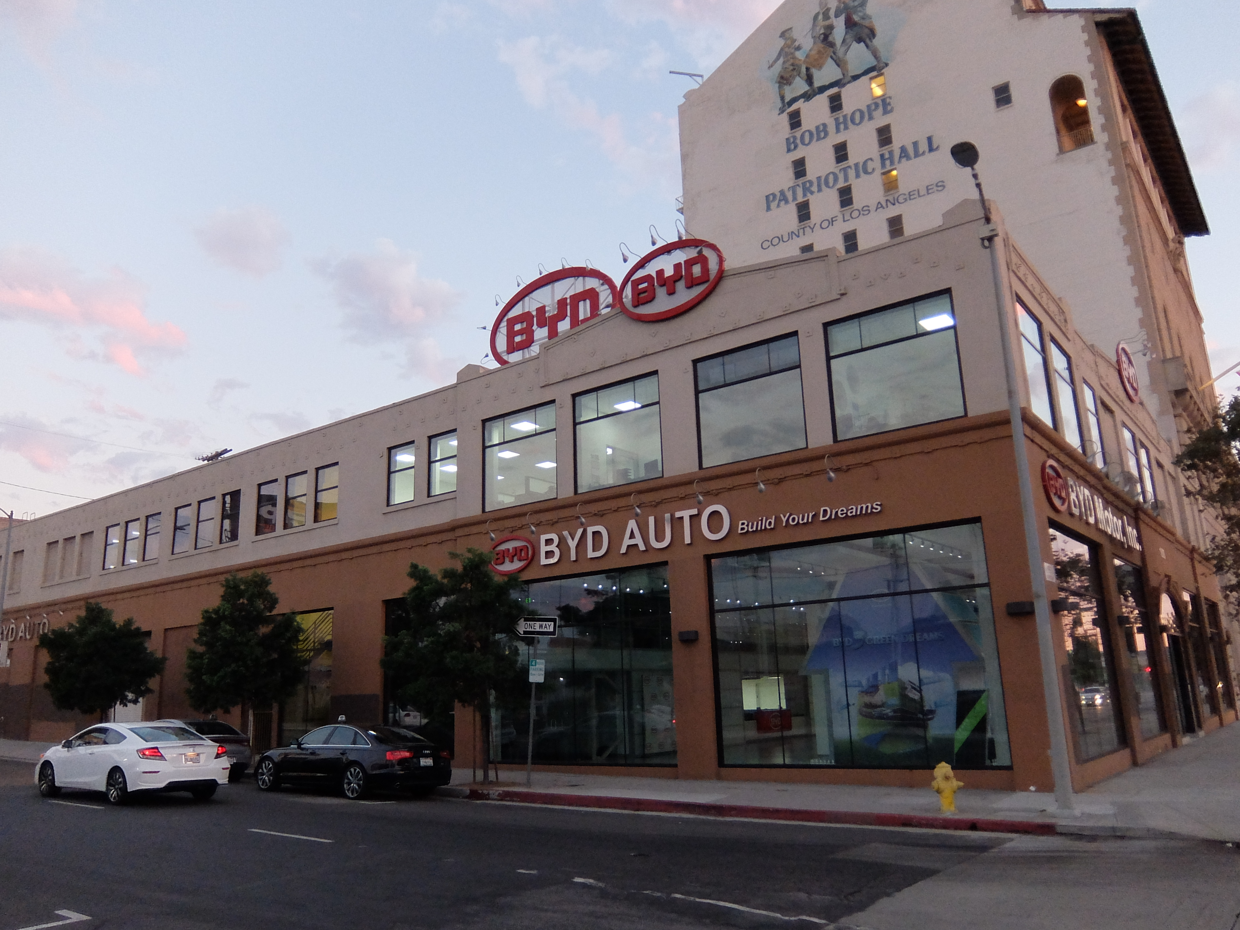 BYD US Headquarter in Los Angeles